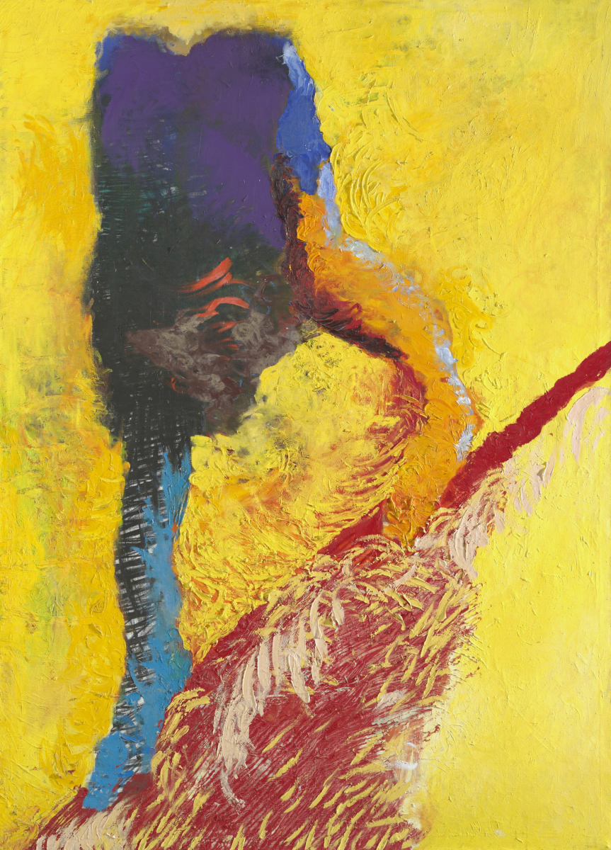 Bent tightrope walker, oil on canvas, 199 x 144 cm (1983-87), Museum Kampa